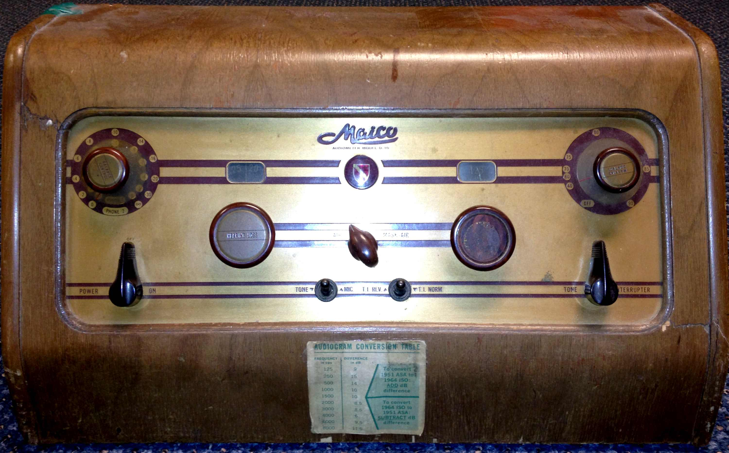 An audiometer used in our early years.